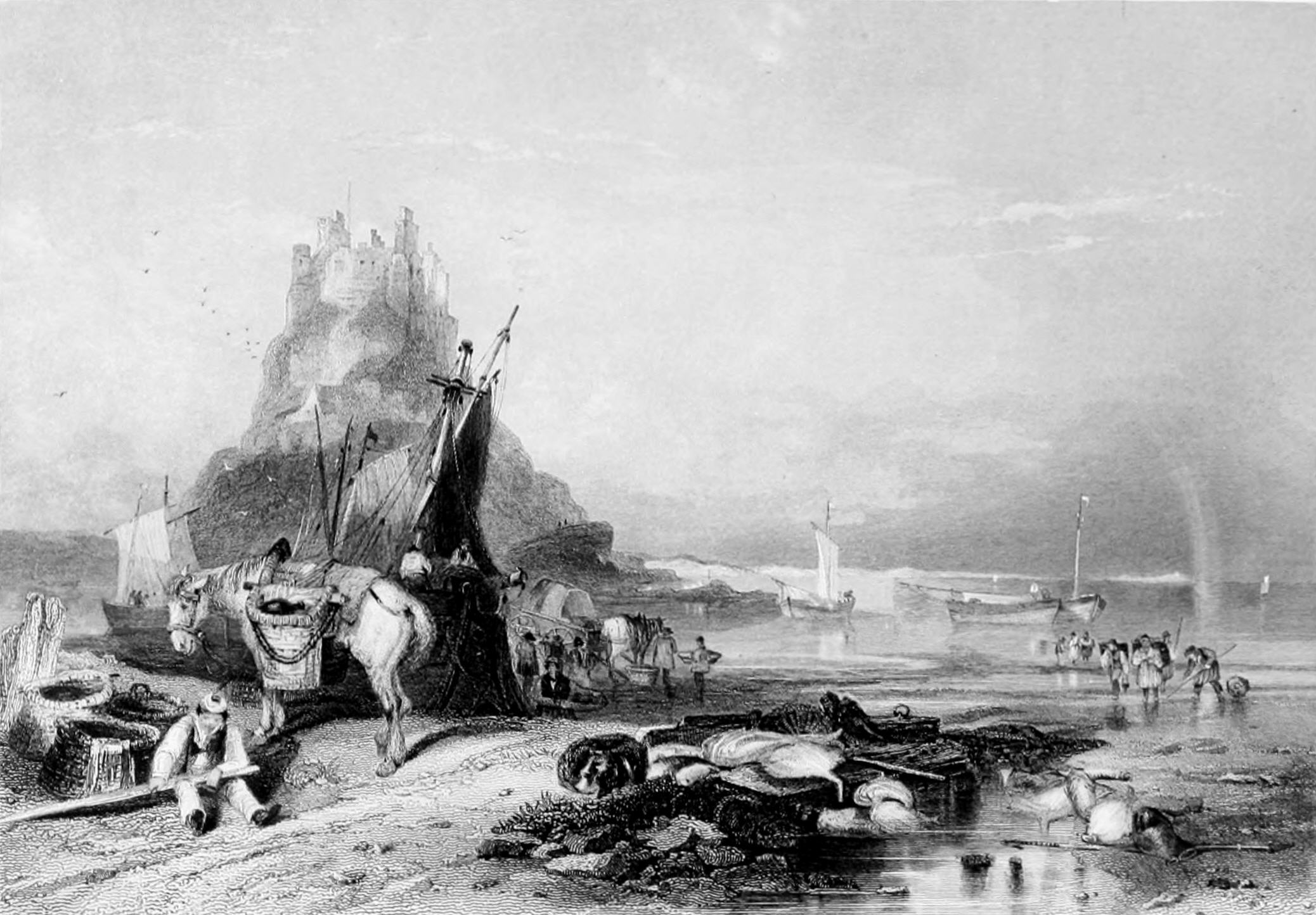 Castle on Holy Island (Lindisfarne) from the westward